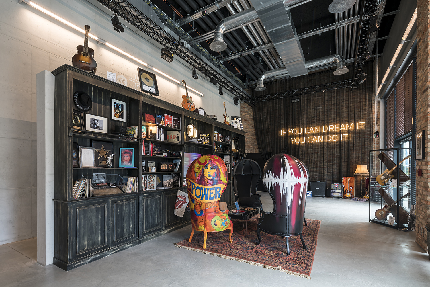 Adam Hall EC Rock n Roll Library 2018